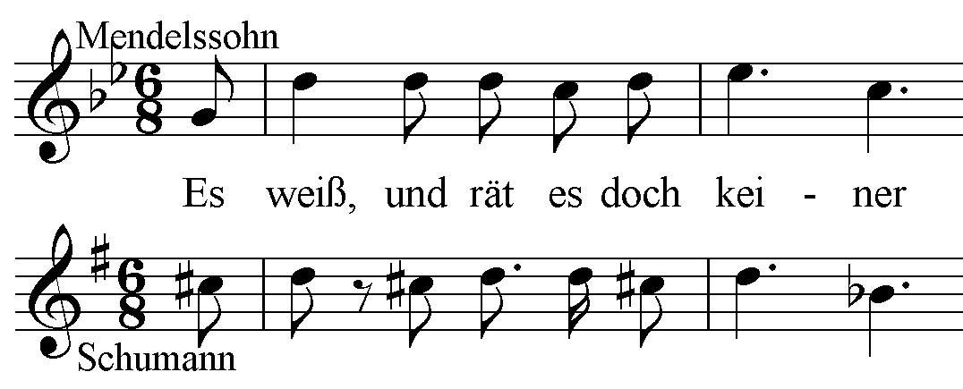 Comparision of the beginnings of the Song "Die Stille" in Felix Mendelssohns and Robert Schumanns scoring